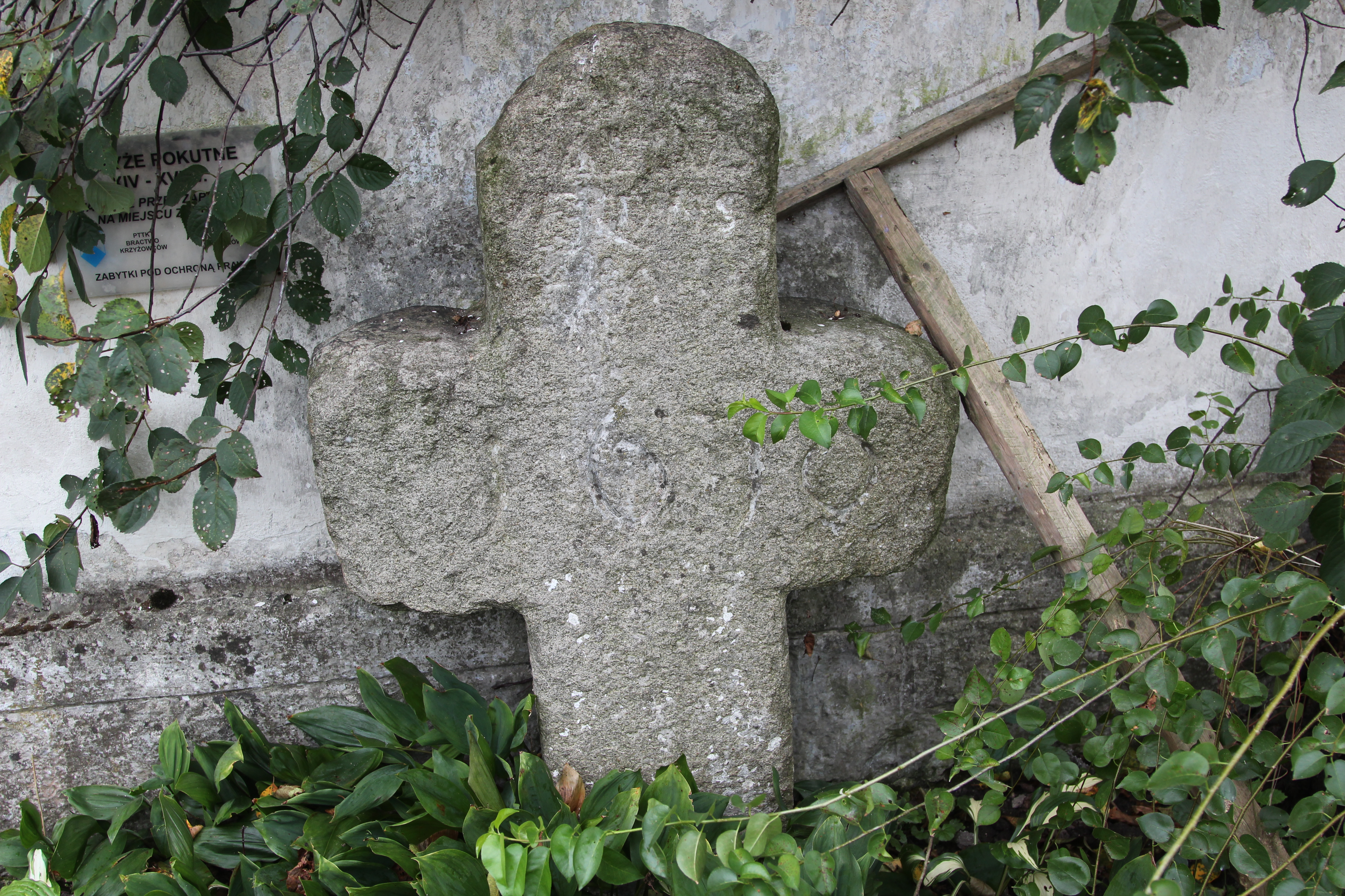 Stone cross in Brzeźnica